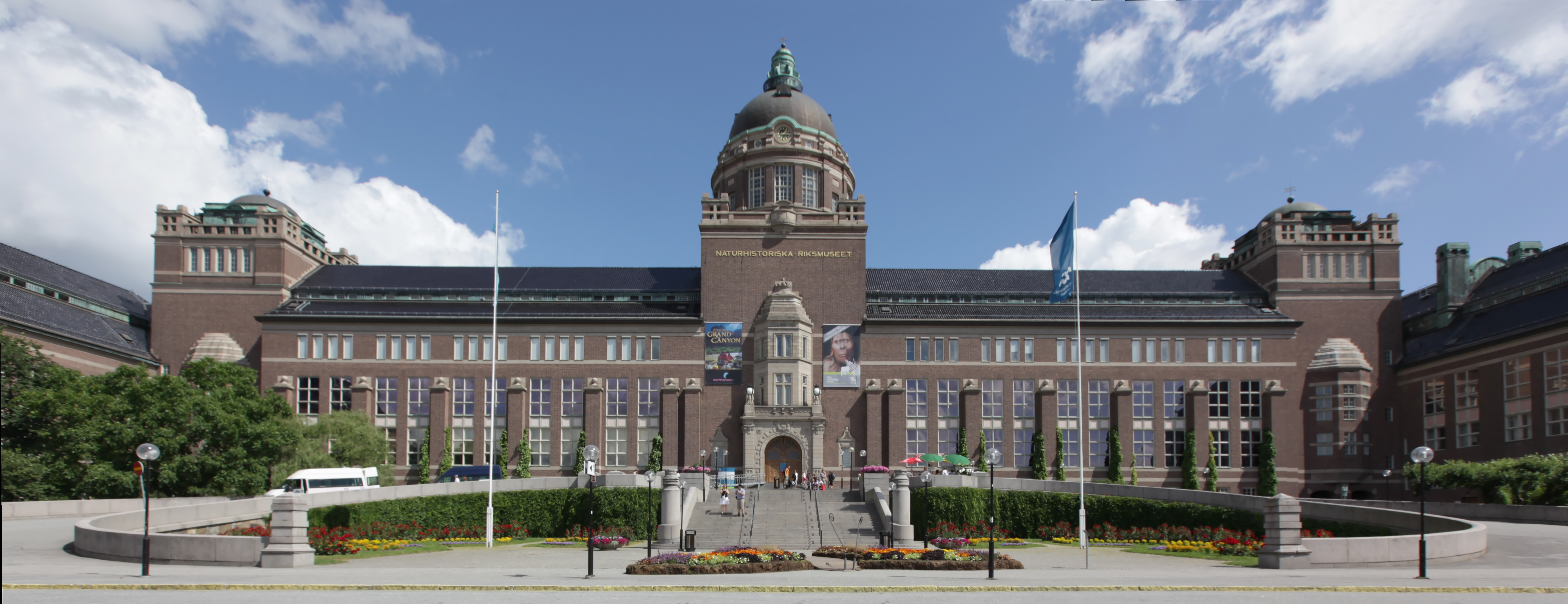 Swedish Museum of Natural History, Stockhom, Sweden.